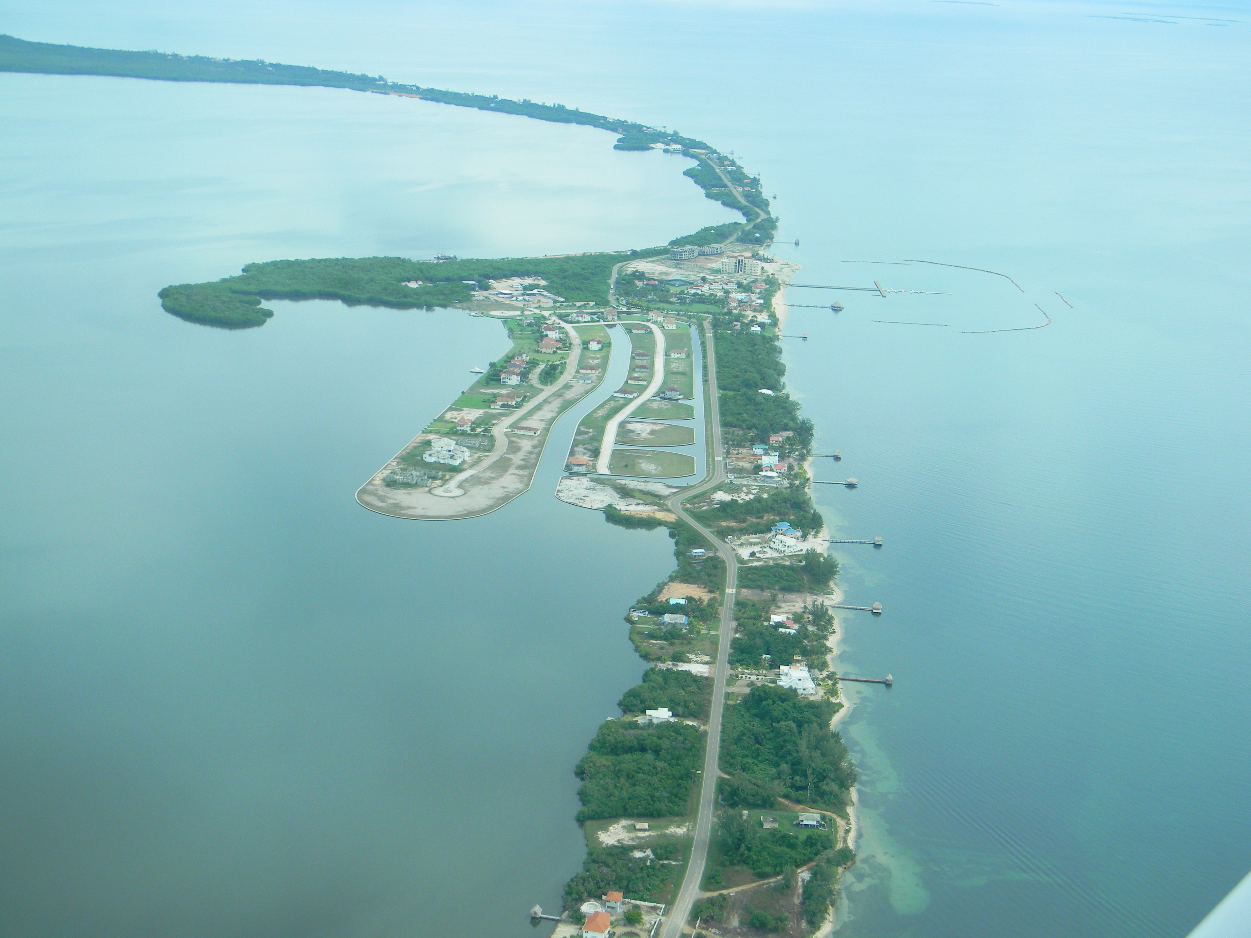 Aerial photographs of Belize, Placencia